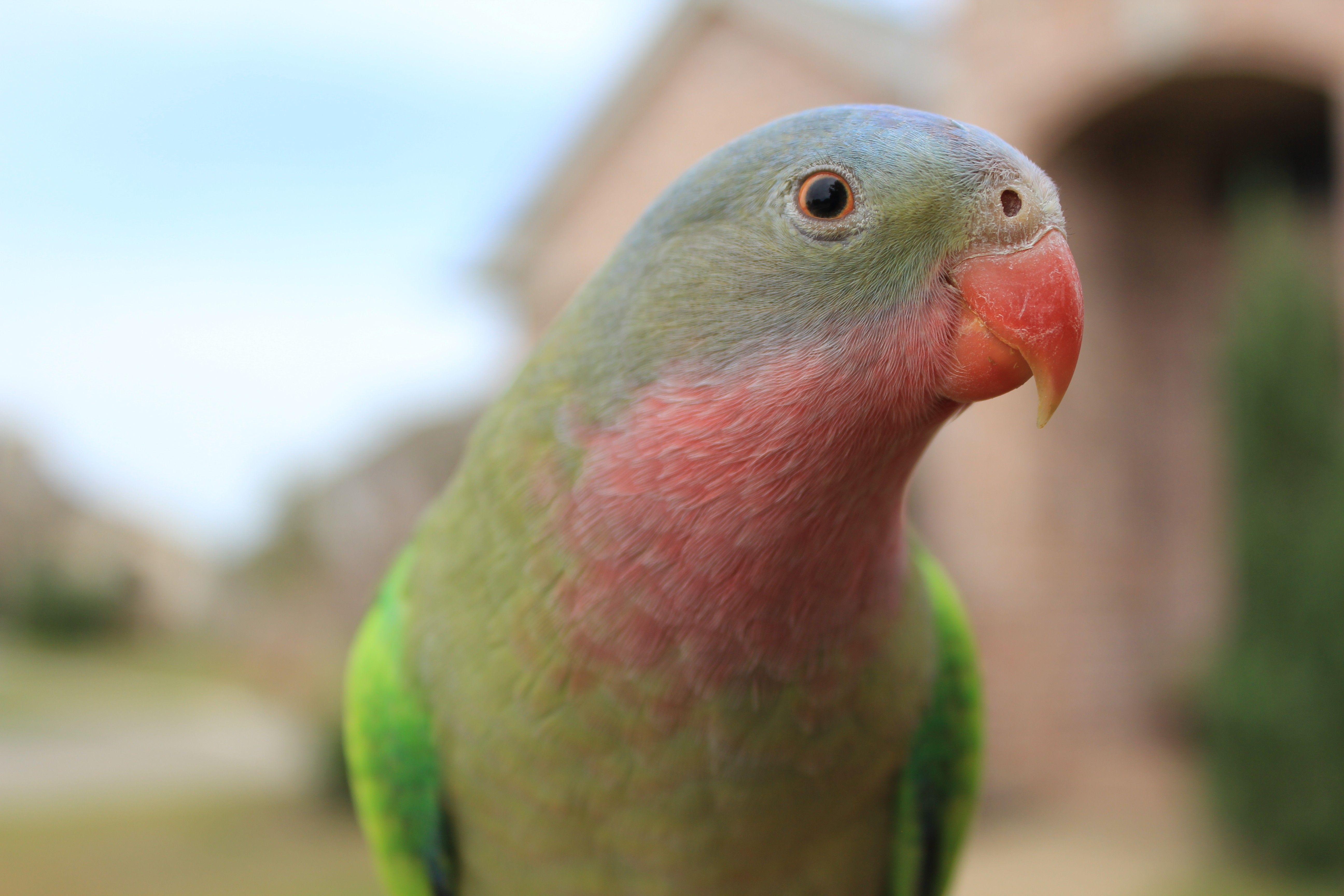 Close-up Princess Parrot